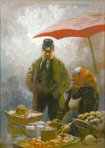 1096 dated work of Friedrich Wilhelm Heine, watercolor on paper (12 3/8" x 8 7/8" inches), Gift of Robert and Dorothy Luening in the Museum of Wisconsin Art Collection, #: 2006-013 ...